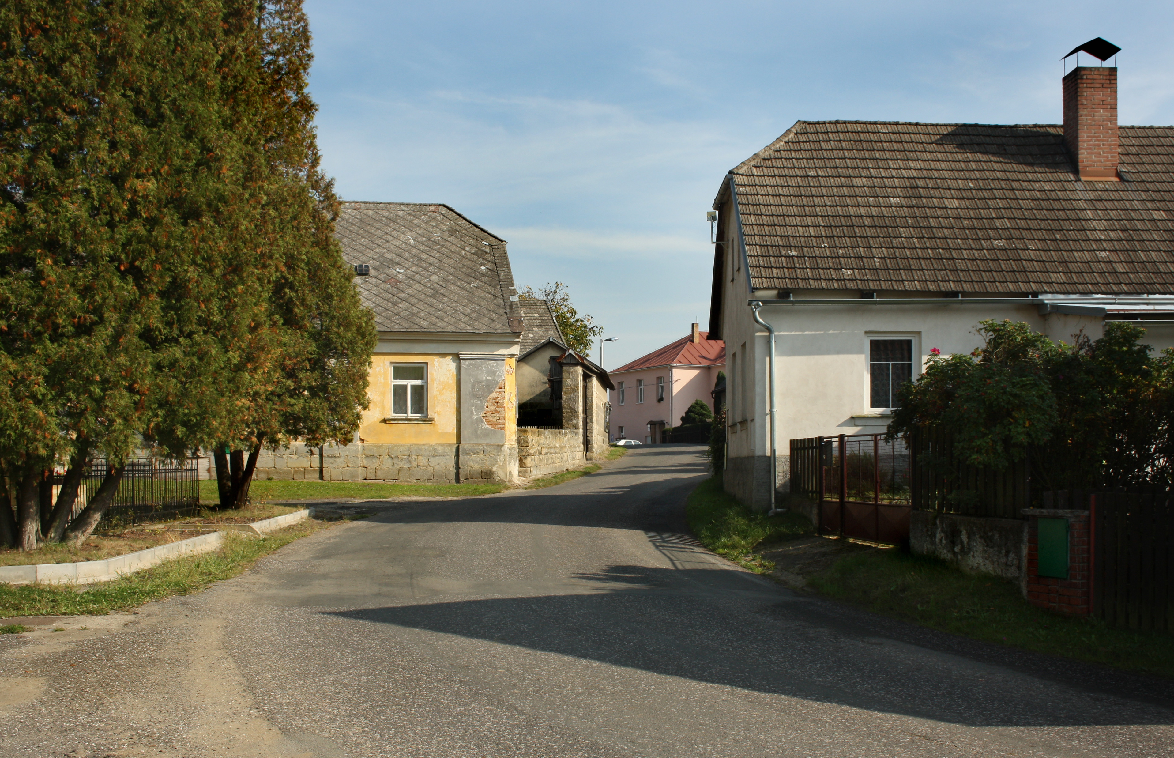 Main street in Branžež, Czech Republic